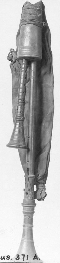 Italian; Zampogna; Aerophone-Reed Vibrated-bagpipe